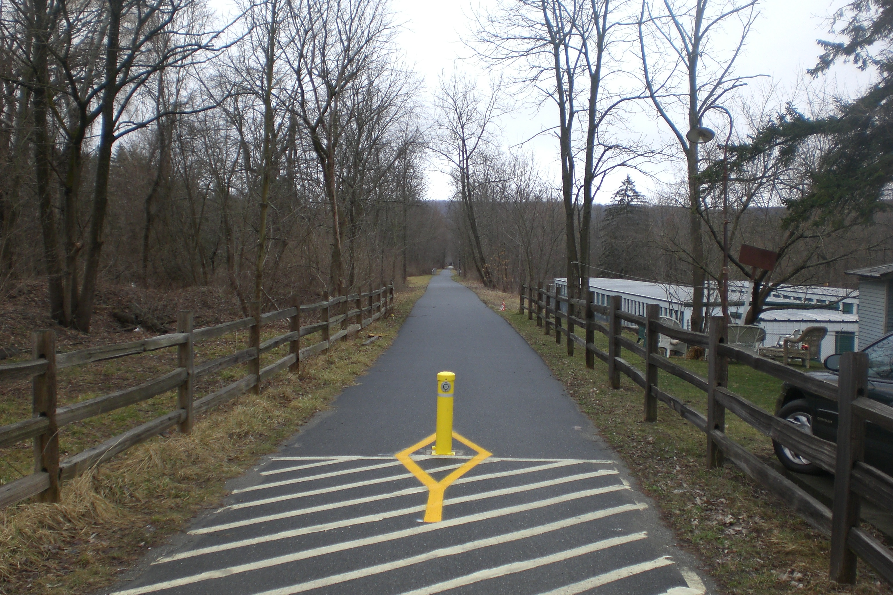 The Amenia train station used to sit on this site. In 2009, almost nothing remains except the light that used to illuminate the platform at dusk